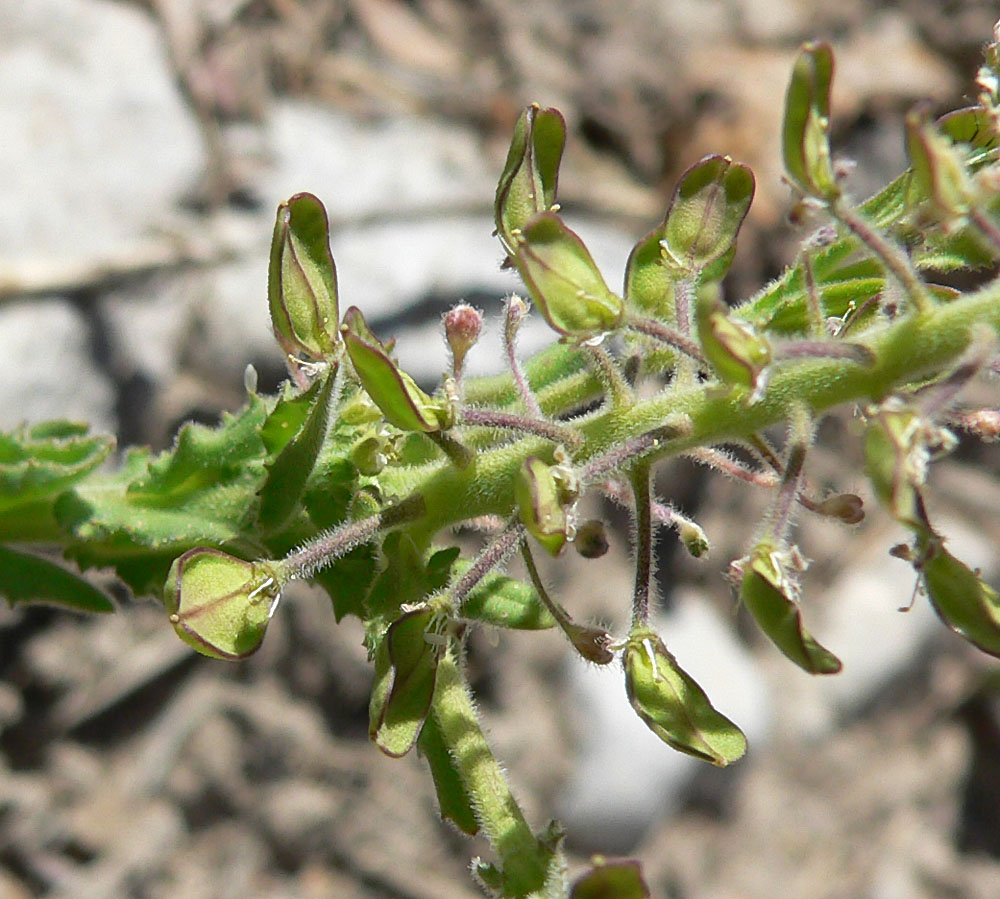 Lepidium campestre in the wash at the junction of 157 and 158 in Kyle Canyon, Spring Mountains, southern Nevada (elev. about 2100 m) - although this species is not on the Spring Mountains checklist (Mentzelia #8), the clasping dentate leaves are distinctive and not seen on any of the documented taxa; also this species is widespread in the western US and the Utah flora notes that it has been spreading southward